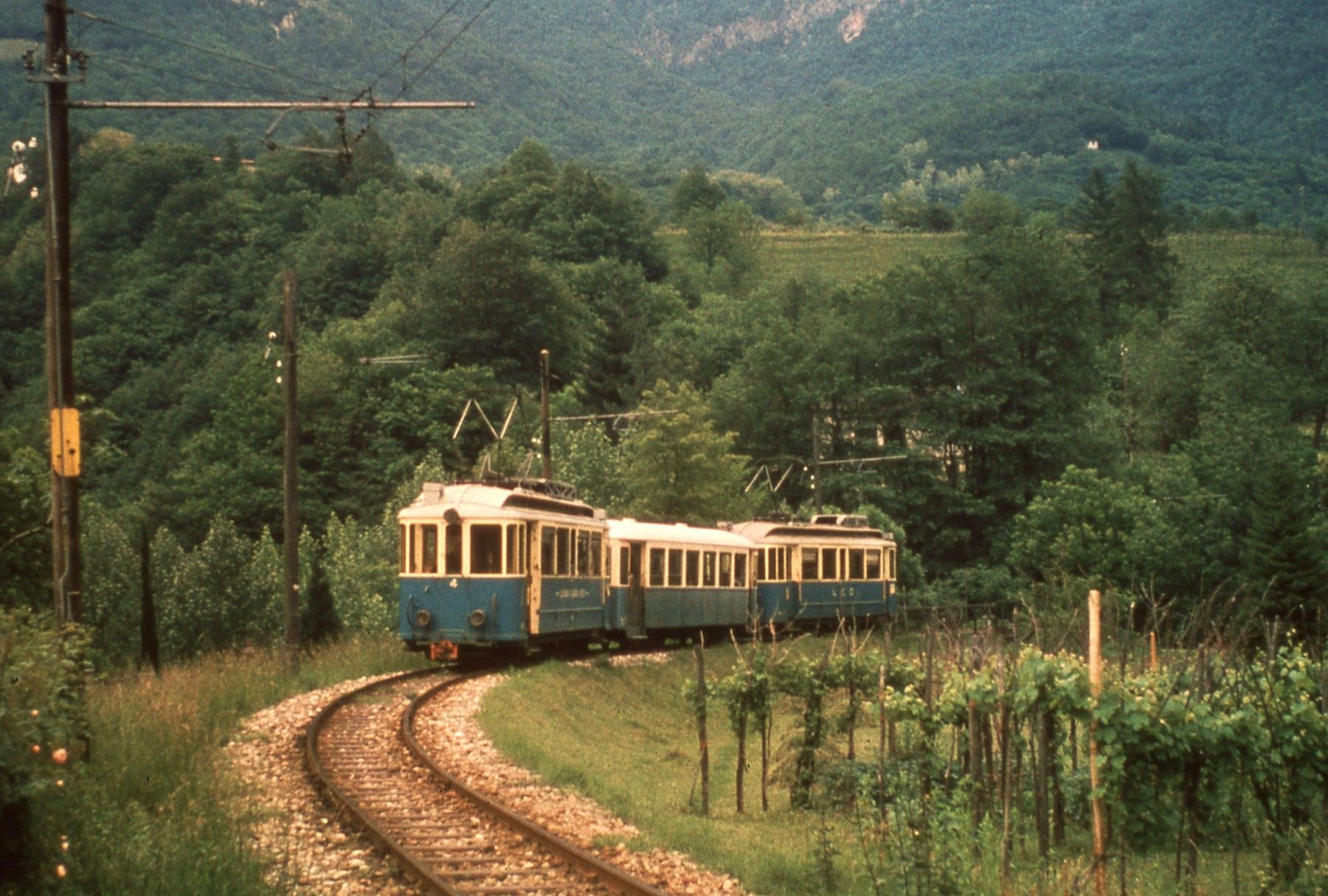 Train of the Lugano-Cadro-Dino light rail line, in Ticino, Switzerland. Taken 30 May 1970